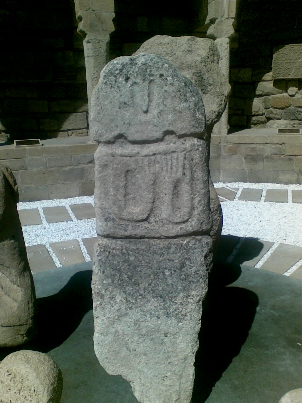 Stone_stele_which_was_found_in_Boyahmadli_village_of_Ağdam_region_of_Azerbaijan_and_is_kept_in_İçərişəhər_part_of_Baku